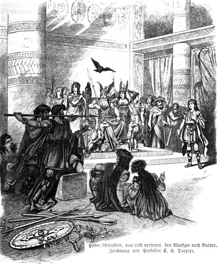 Guided by Loki, Höðr shoots the mistletoe at Baldr.